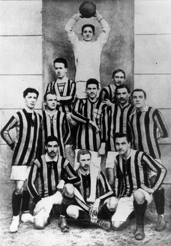 Italian football team Internazionale Milano, posing for the camera.